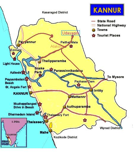 Map of Kannur